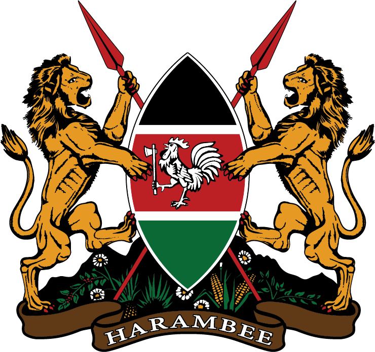 Kenya Coat of Arms